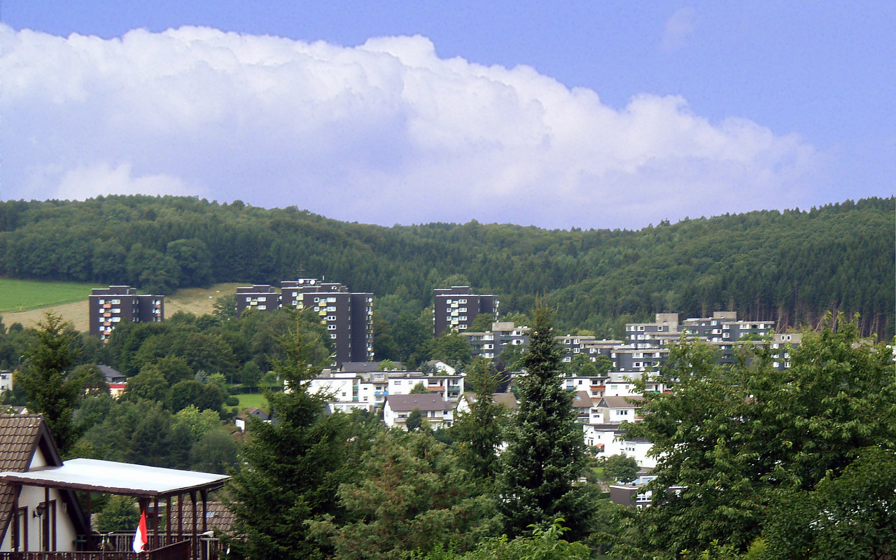 view of Bernberg, district of Gummersbach, North Rhine-Westphalia, Germany